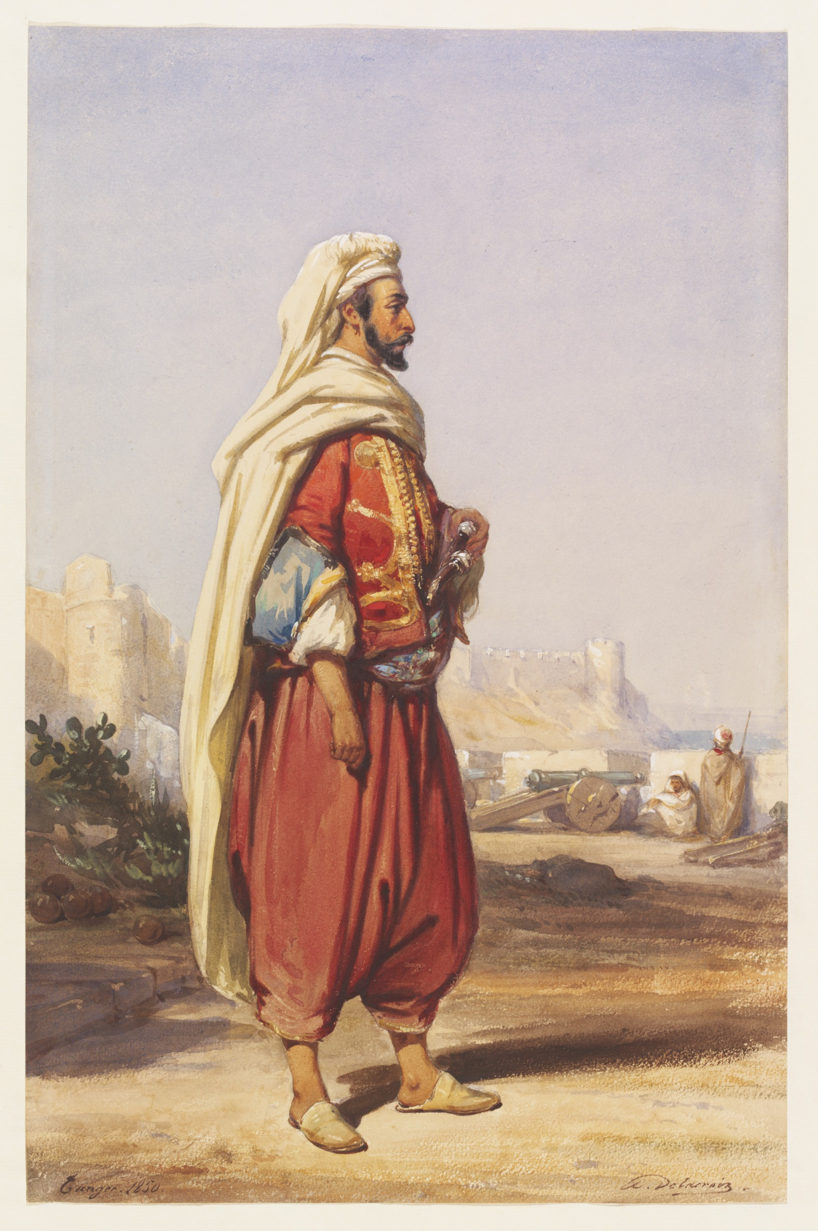 Delacroix's gallant captain stands proudly in brilliant sunshine within the walls of the Citadel of Tangier, his martial position further emphasised by the cannon in the background. Portrayed in profile, his hawk-like features and alert, watchful stance are distinctive. Auguste Delacroix (not to be confused with his more famous namesake) became known for his scenes of everyday rural and coastal life set in and around his native Boulogne. Half-way through his career, in about 1849-50, he visited Morocco, and thereafter oriental subjects were included among the paintings he exhibited at the Salon. This watercolour must have been painted during or shortly after his visit to Tangier.